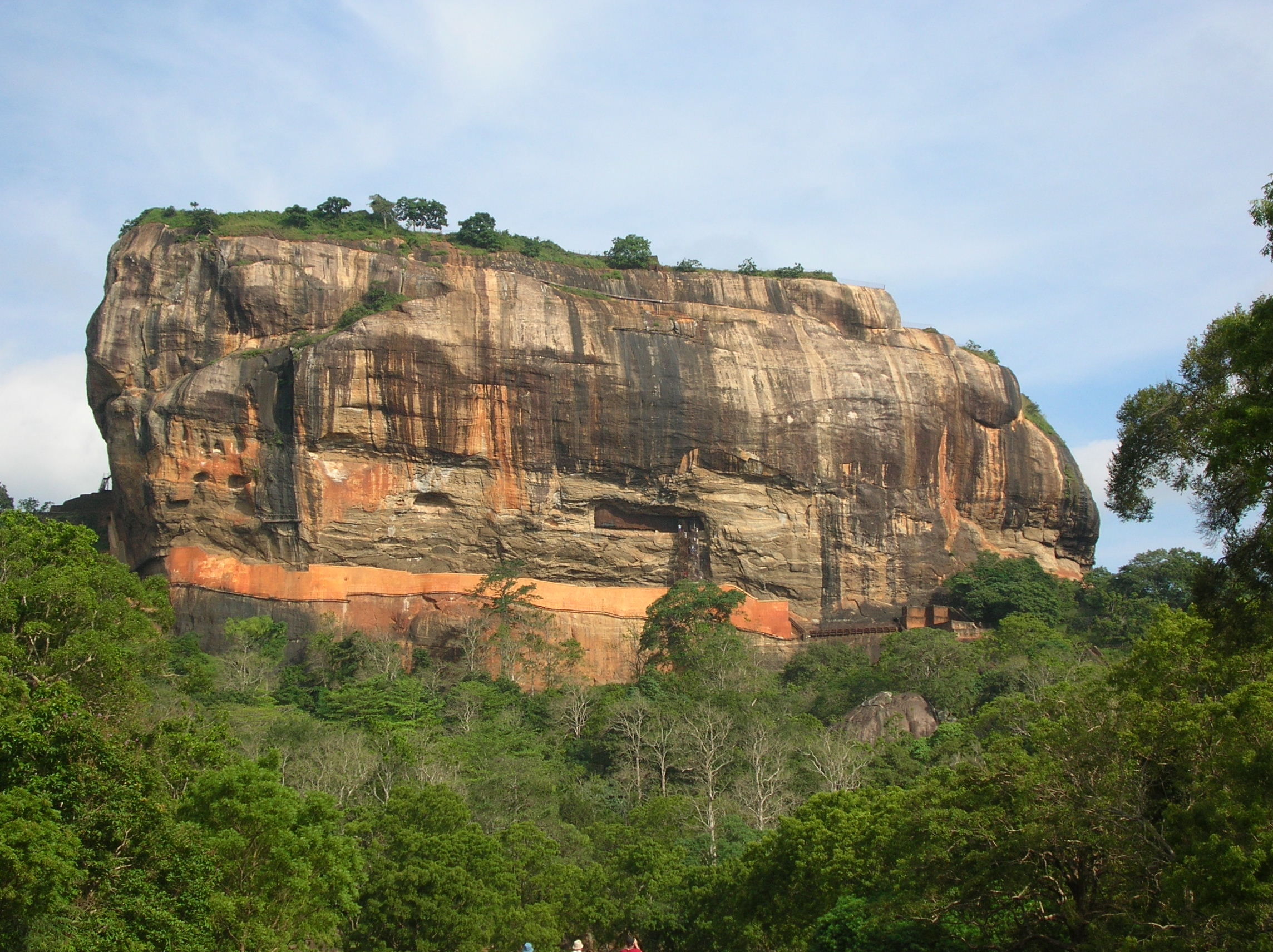 Sigiriya rock, Sri Lanka